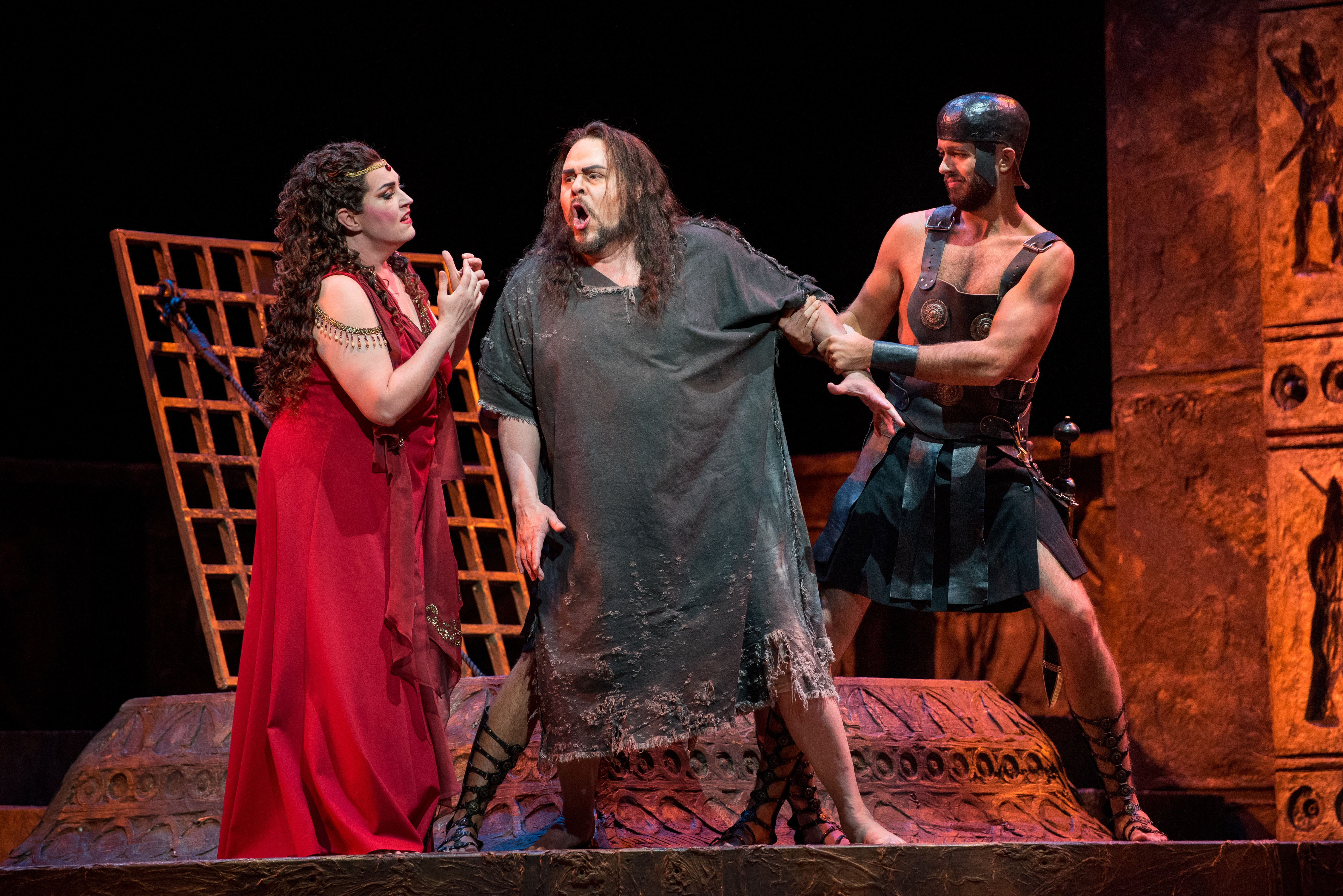 Salome (Melody Moore), Jochanaan (Mark Delavan) and Soldier (Benjamin Dickerson) Photo Credit Chris Kakol